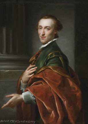 Portrait of Robert Stewart, 1st Marquess of Londonderry, by Anton Raffael Mengs.